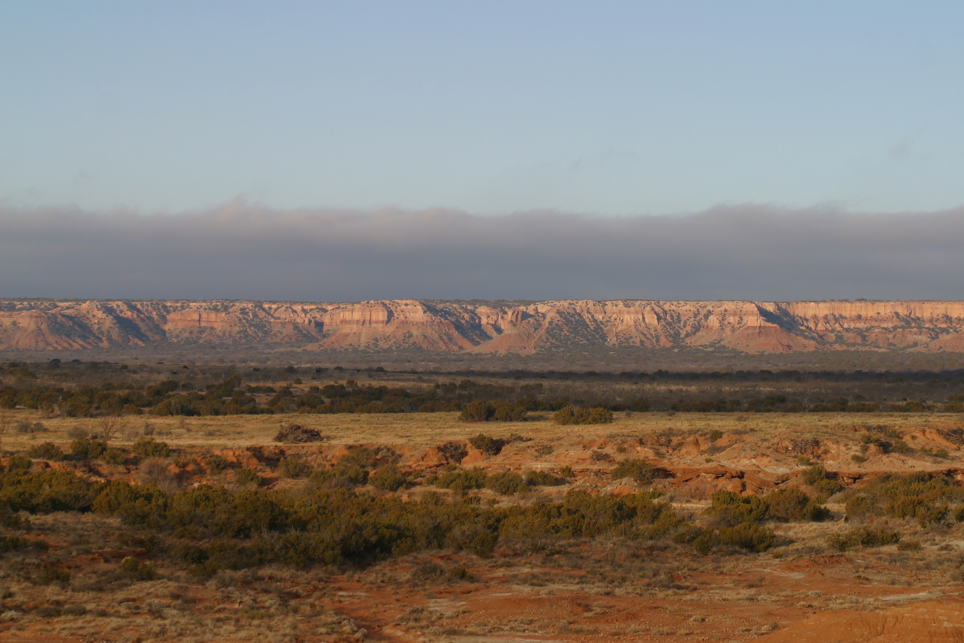 Caprock Escarpment seen from Farm to Market Road 669, Garza County, Texas.